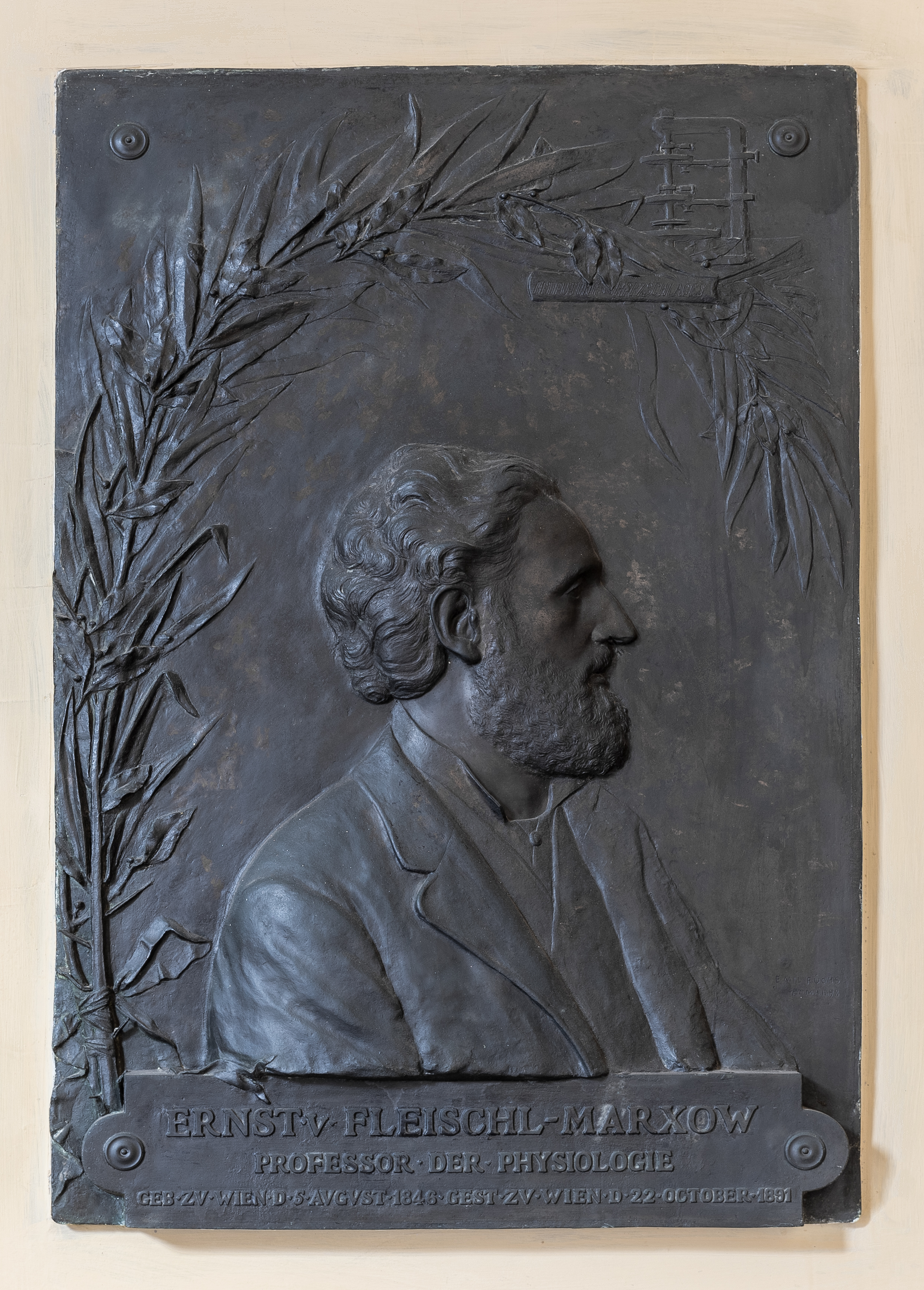 Ernst Fleischl von Marxow (1846-1891), basrelief (bronze) in the Arkadenhof of the University of Vienna, (Maisel# 84). Artist: Emil Fuchs (1866-1929), unveiled 1898